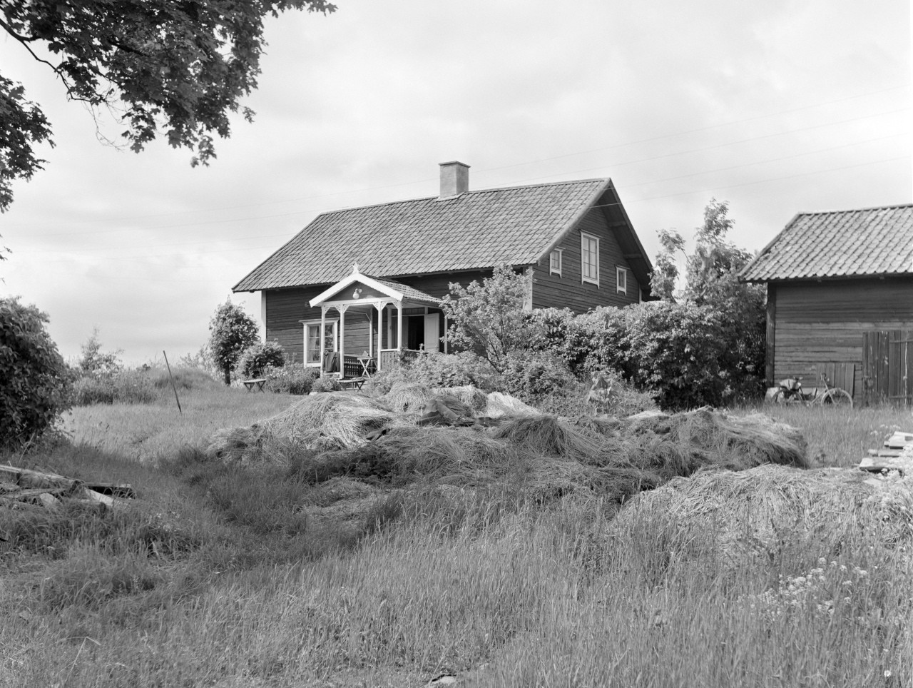 Hjulsta by från söder med bostadshus och bod. 1957-1957FOTOGRAF: Ahnlund, Henrik.BILDNUMMER: F 55848Stadsmuseet i Stockholm